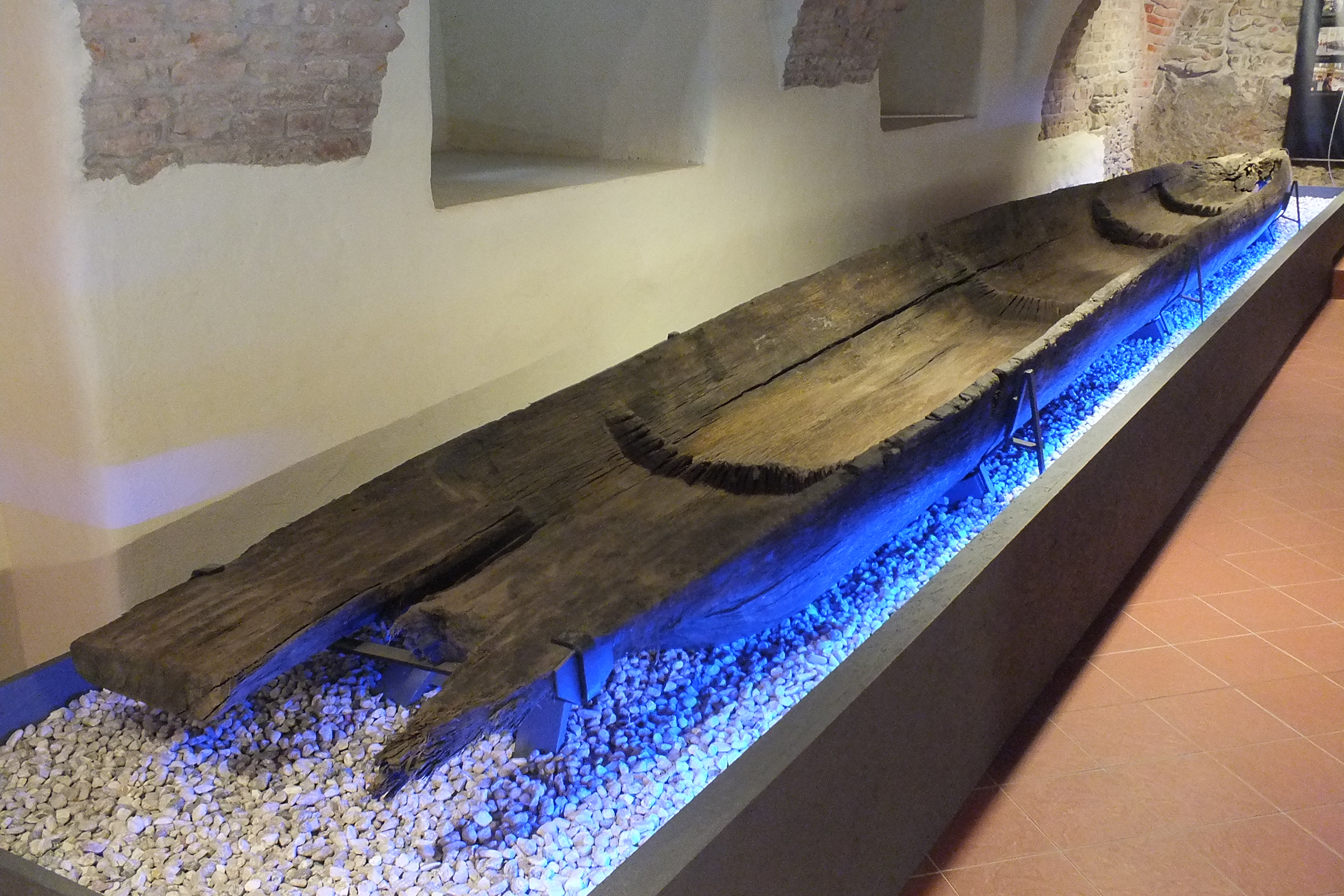 Celtic monoxylon found on the shore of a lake near Mohelnice (Olomouc Region, the Czech Republic) in 1999. It comes from the late Iron Age (400–50 AD) and it was made from a 200 years old oak. Measuring 10.5 x 1.05 × 0.6 m, it is the biggest monoxyl found in the Czech Republic. The photo was taken at the exhibition Příběh kamene (The Story of the Stone) in the basement of the former Jesuit university in Olomouc, nowadays belonging to the Regional Museum in Olomouc.